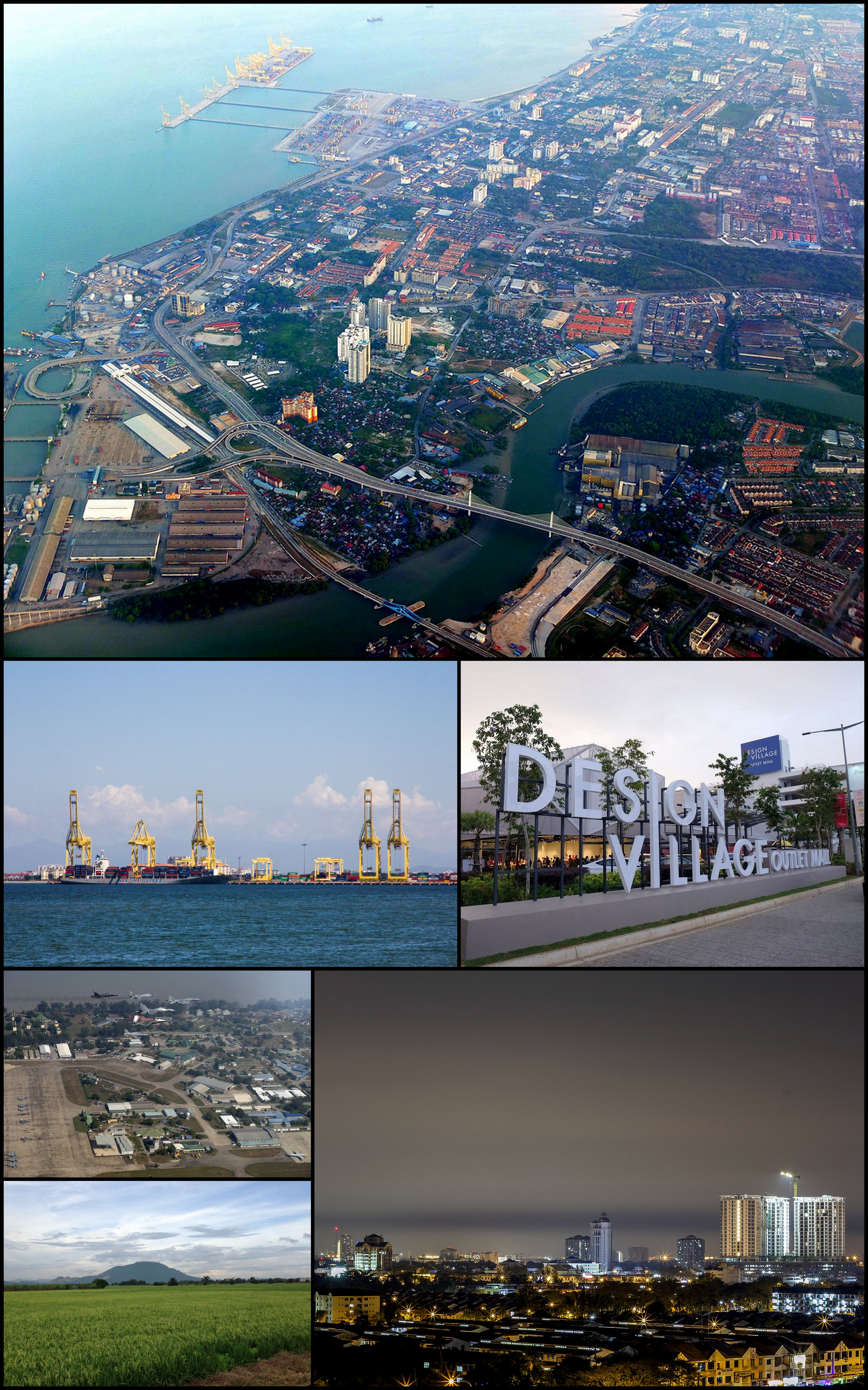 From top row: Penang Port, Seberang Perai Municipal Council Headquarters, Penang Ferry Service & AEON Seberang Perai City Shopping Mall.